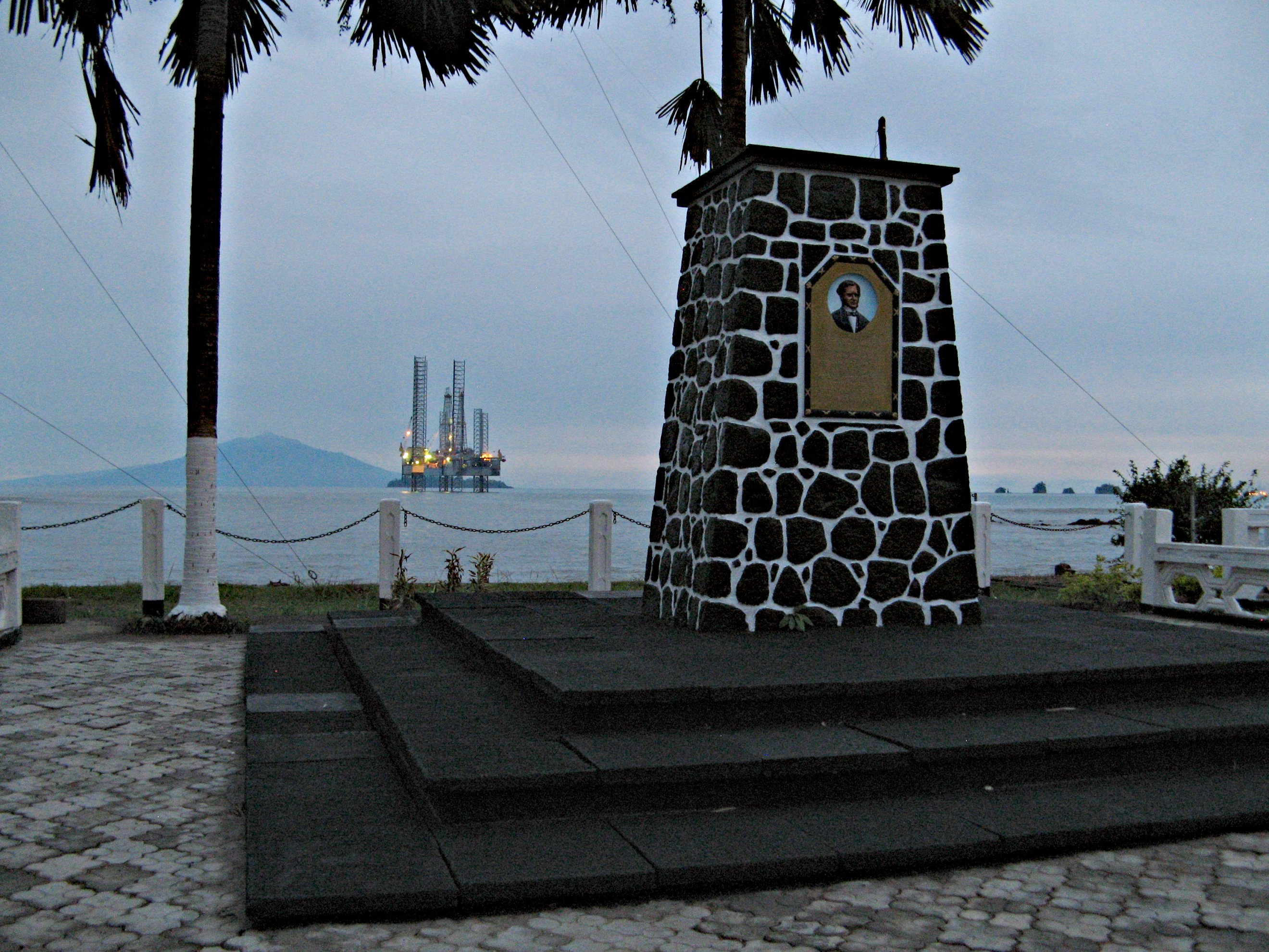 Alfred Saker was the British missionary who first established the settlement in 1858 which is considered the founding of the town of Victoria. The town was renamed Limbe in 1982. - IMG_7137